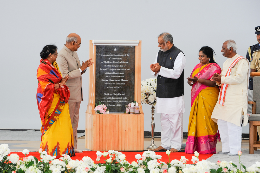 Hon President of India unveils the World's largest meditation hall at Kanha Shanti Vanam on 2nd Feb 2020, on the occasion of 75th Anniversary of Shri Ram Chandra Mission